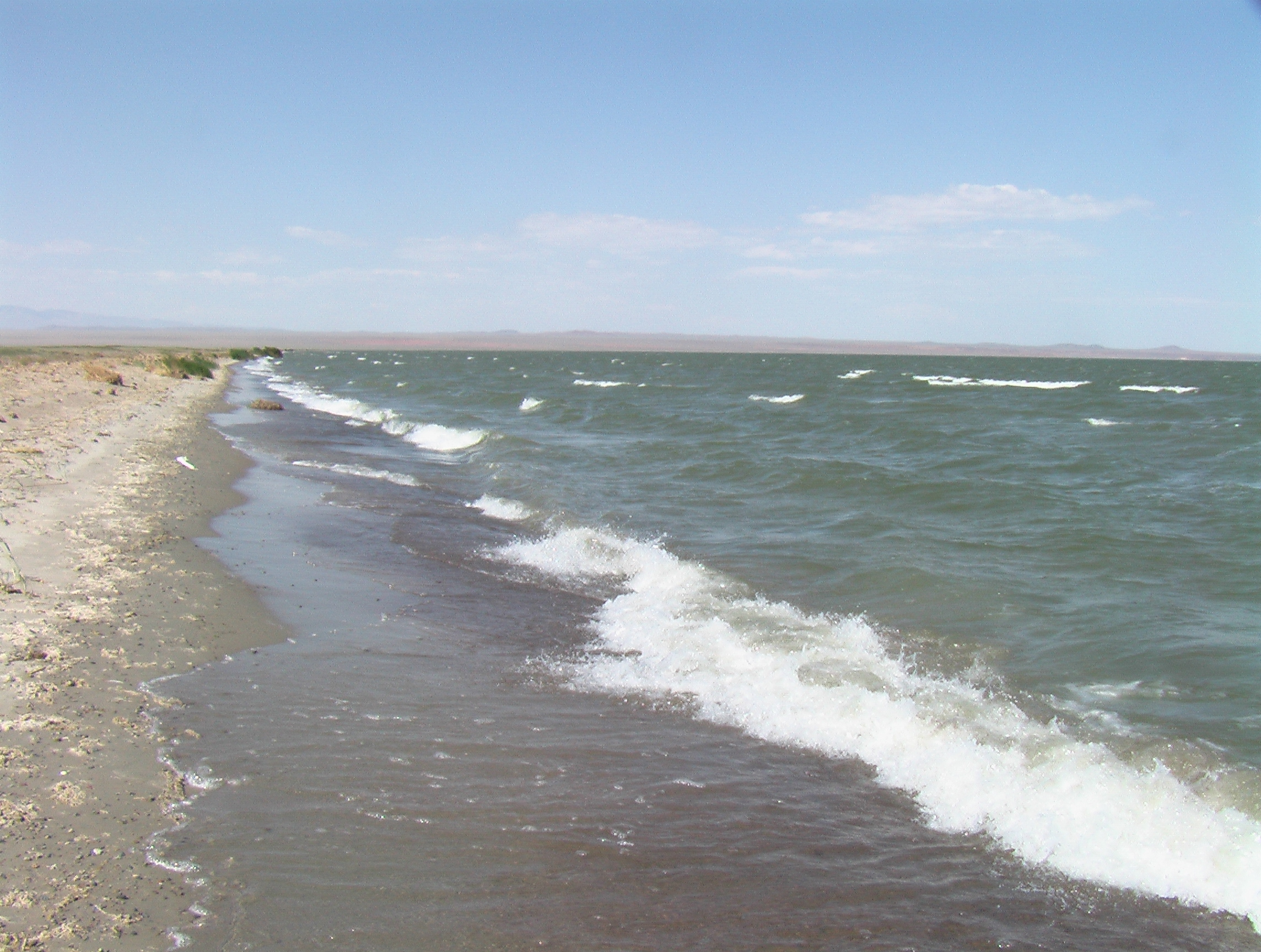 Khar-Nuur lake, Eastern shore, in Khovd aimag, Mongolia